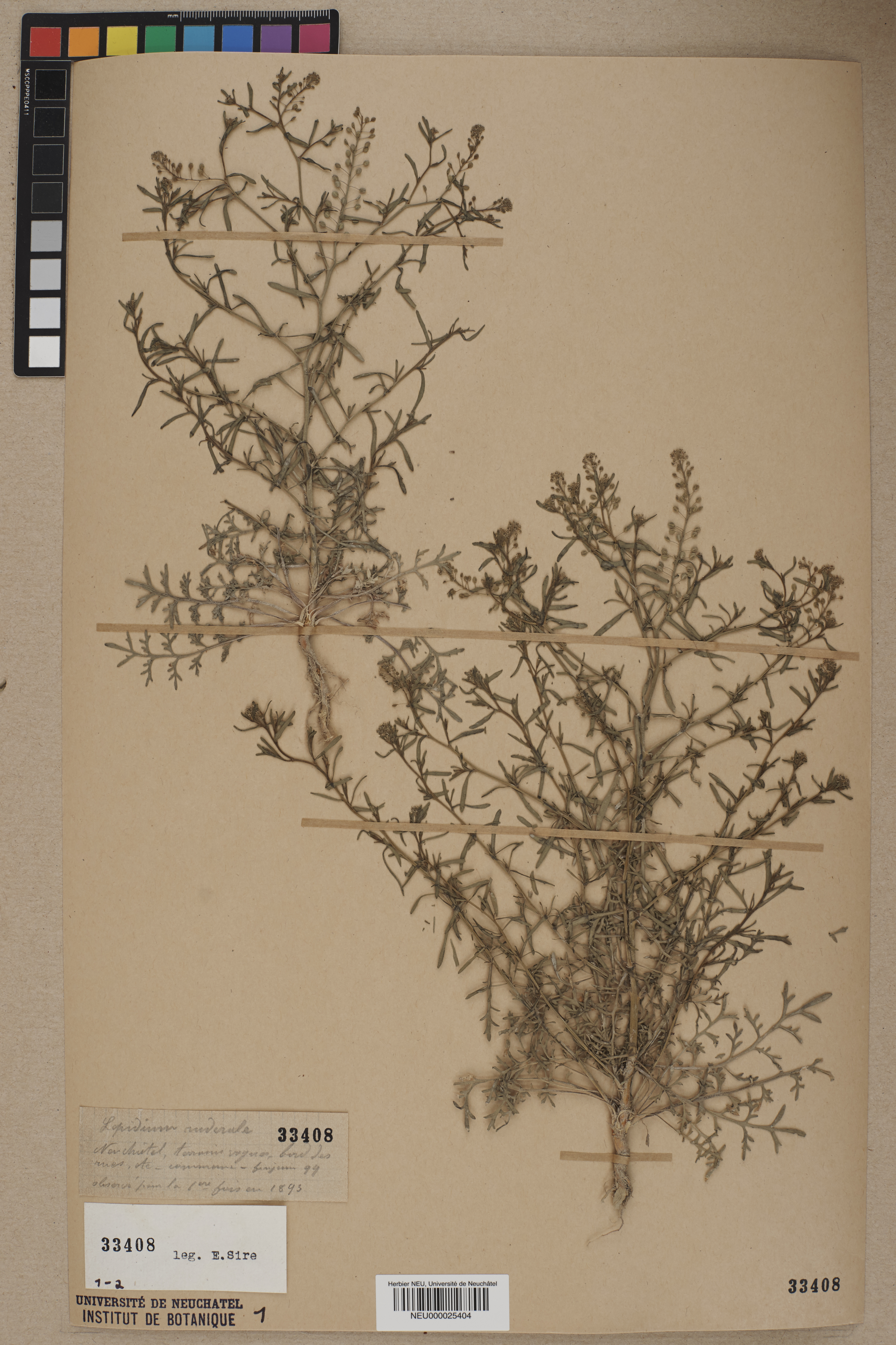 Dried pressed specimen of Lepidium ruderale